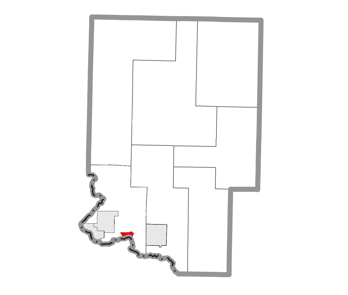 Quinnesec, MI